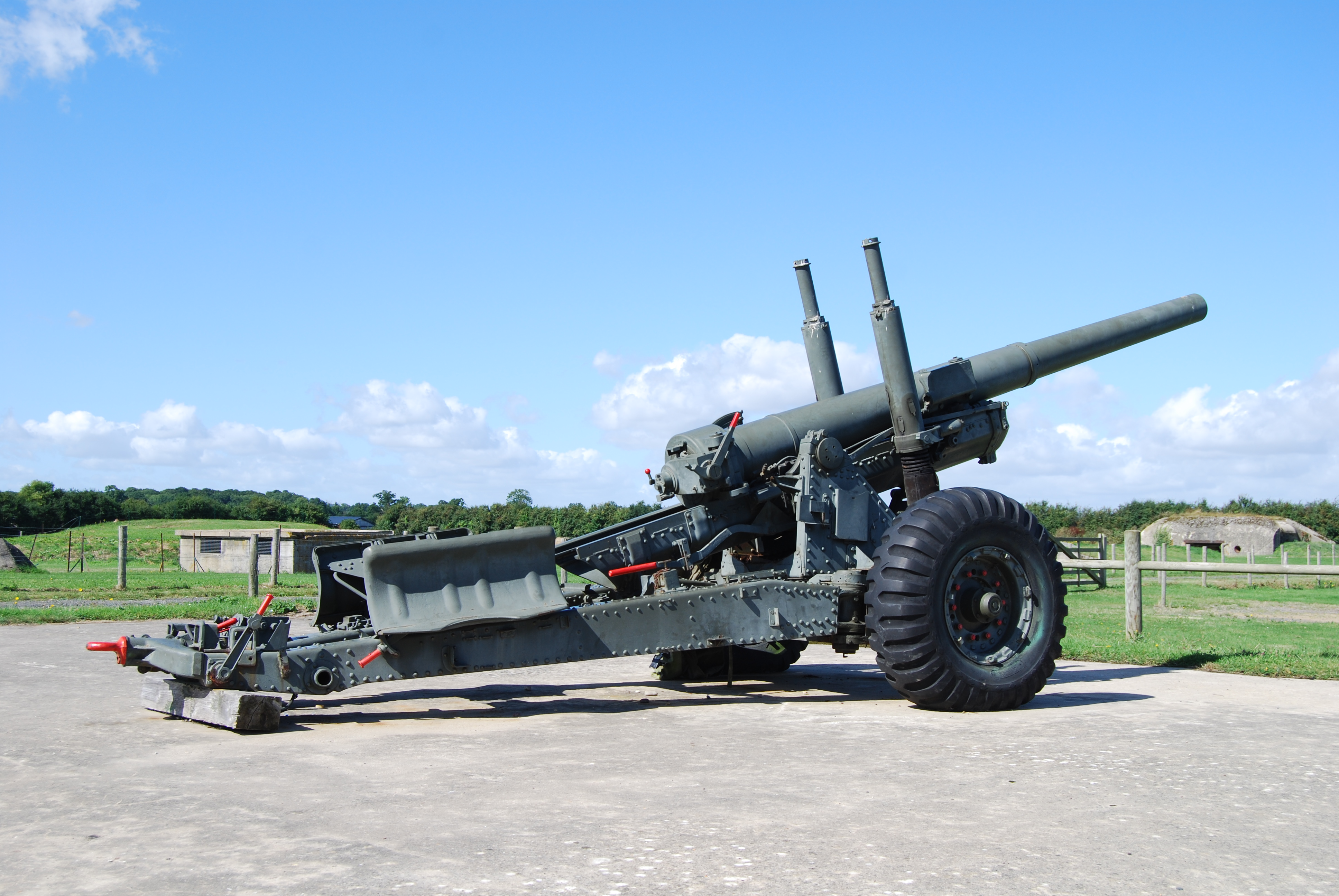 BL 5.5 inch Medium Gun. used to stand on the emplacements